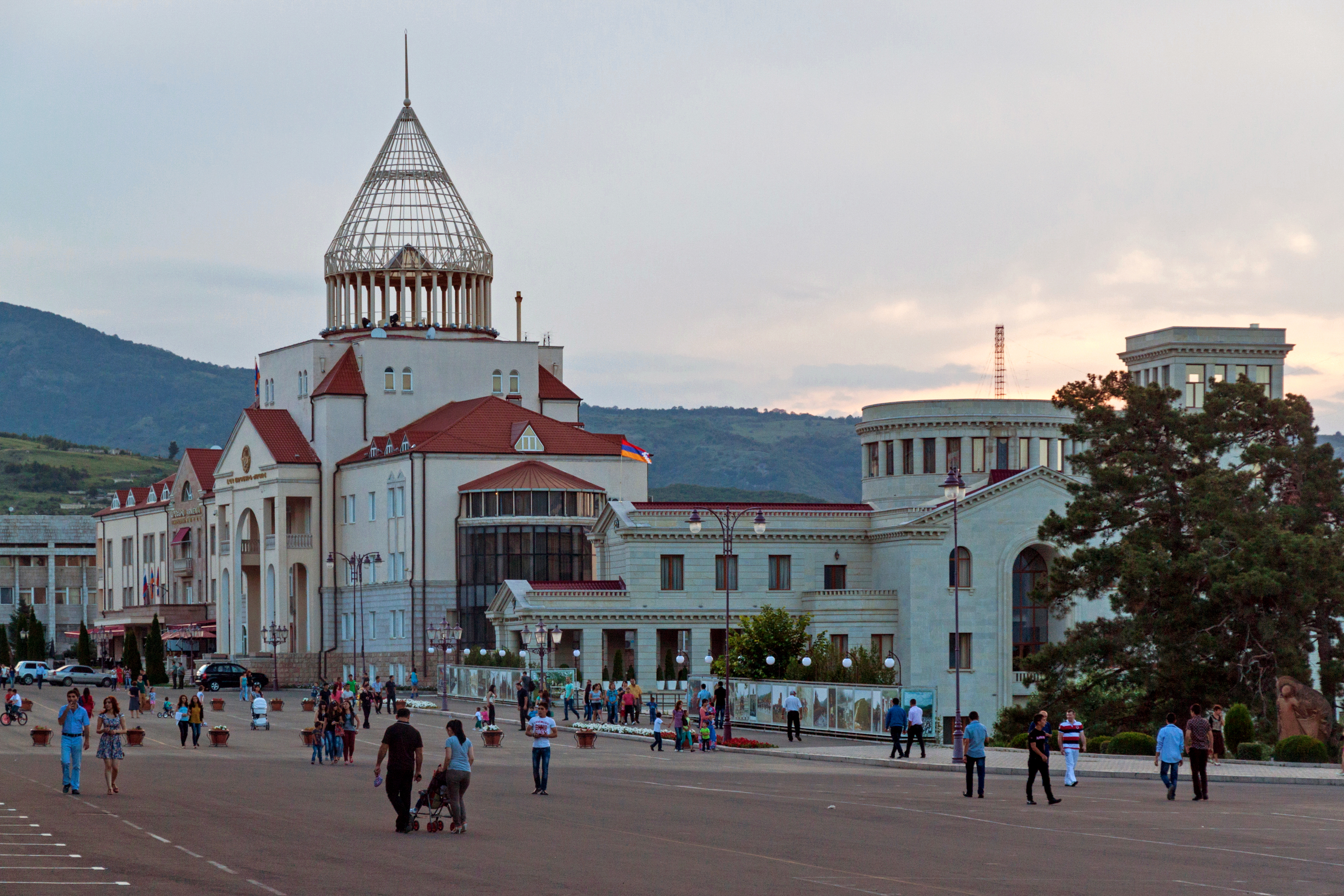 Renaissance Square. Stepanakert/Xankəndi, Nagorno-Karabakh.